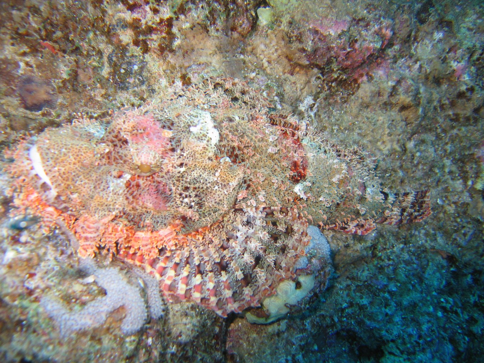 Scorpaena stonefish in Red Sea (with flash) Version without flash